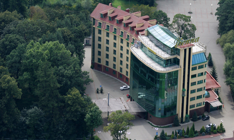 Parkhotel Vienna in Bielsko-Biala.